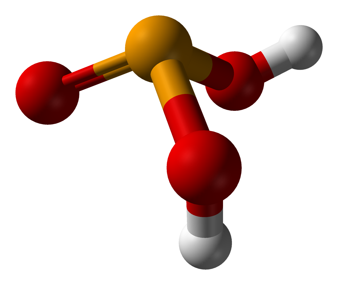 Ball-and-stick model of the selenous acid molecule, H2SeO3, better described as O=Se(OH)2, as found in the crystal structure. Colour code: Selenium, Se: amber Hydrogen, H: white Oxygen, O: red Compound discussed in Greenwood, N. N.; Earnshaw, A. (1997) Chemistry of the Elements (2nd ed.), Oxford:Butterworth-Heinemann ISBN: 0-7506-3365-4. , p. 781. Crystal structure by X-ray diffraction from Acta Chem. Scand. (1971) 25, 1233-1240. Model constructed in CrystalMaker 8.1. Image generated in Accelrys DS Visualizer.